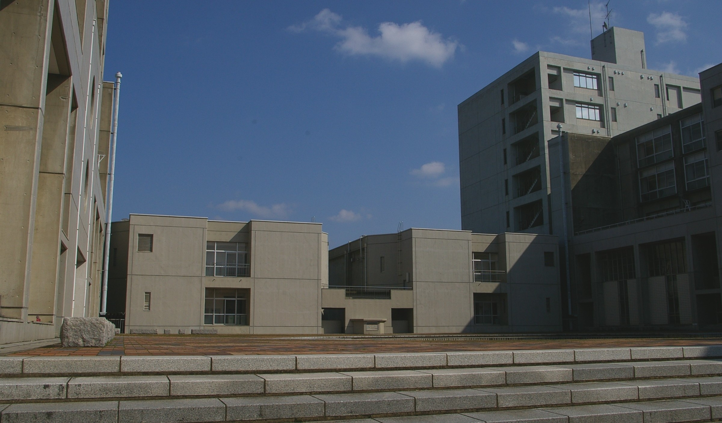 Fukuoka